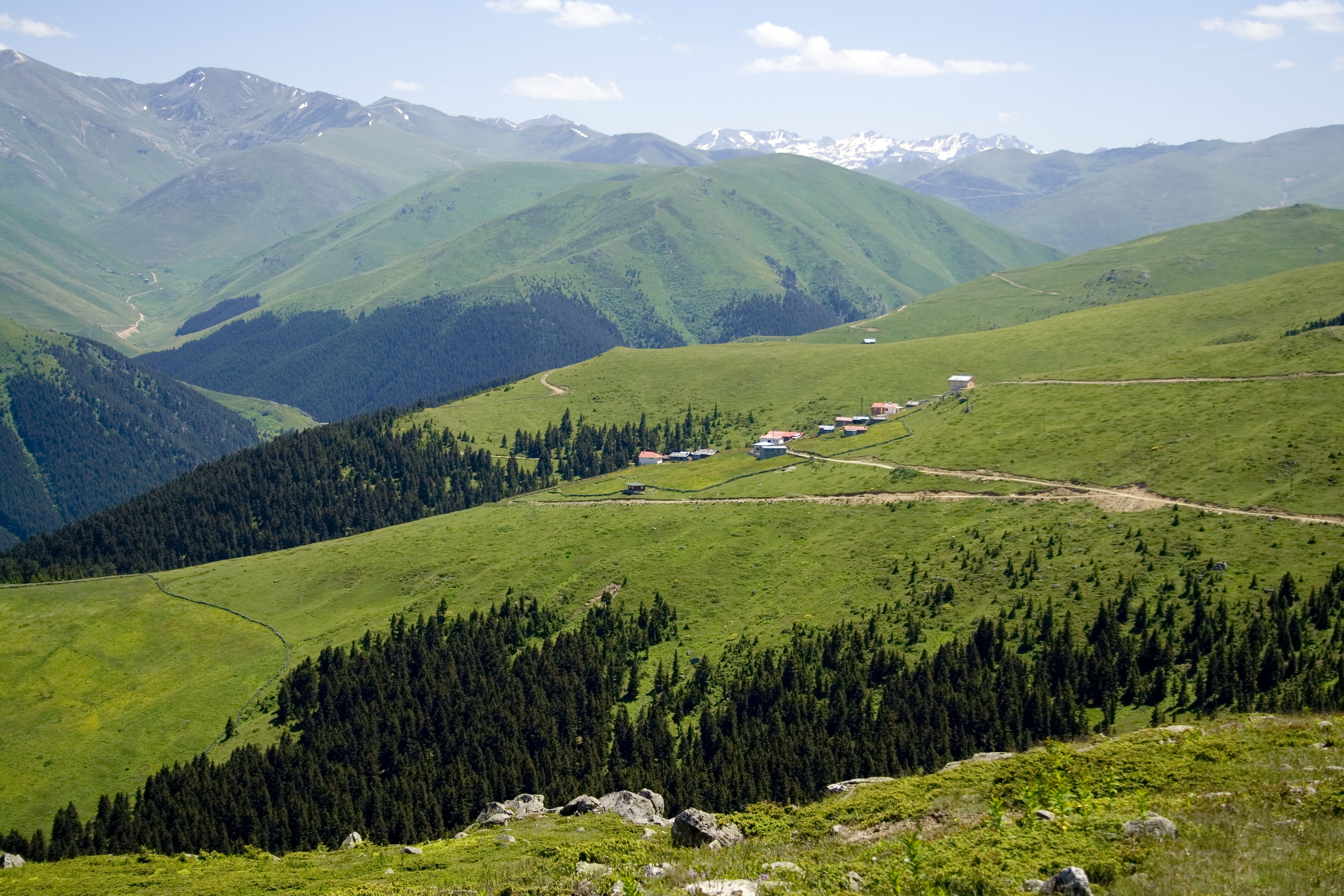 View over mountain plataeu near Çaykara